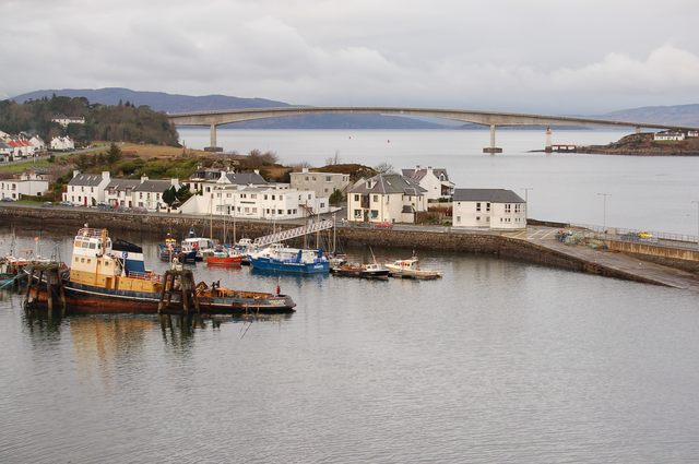 Kyleakin, Highlands, Scotland